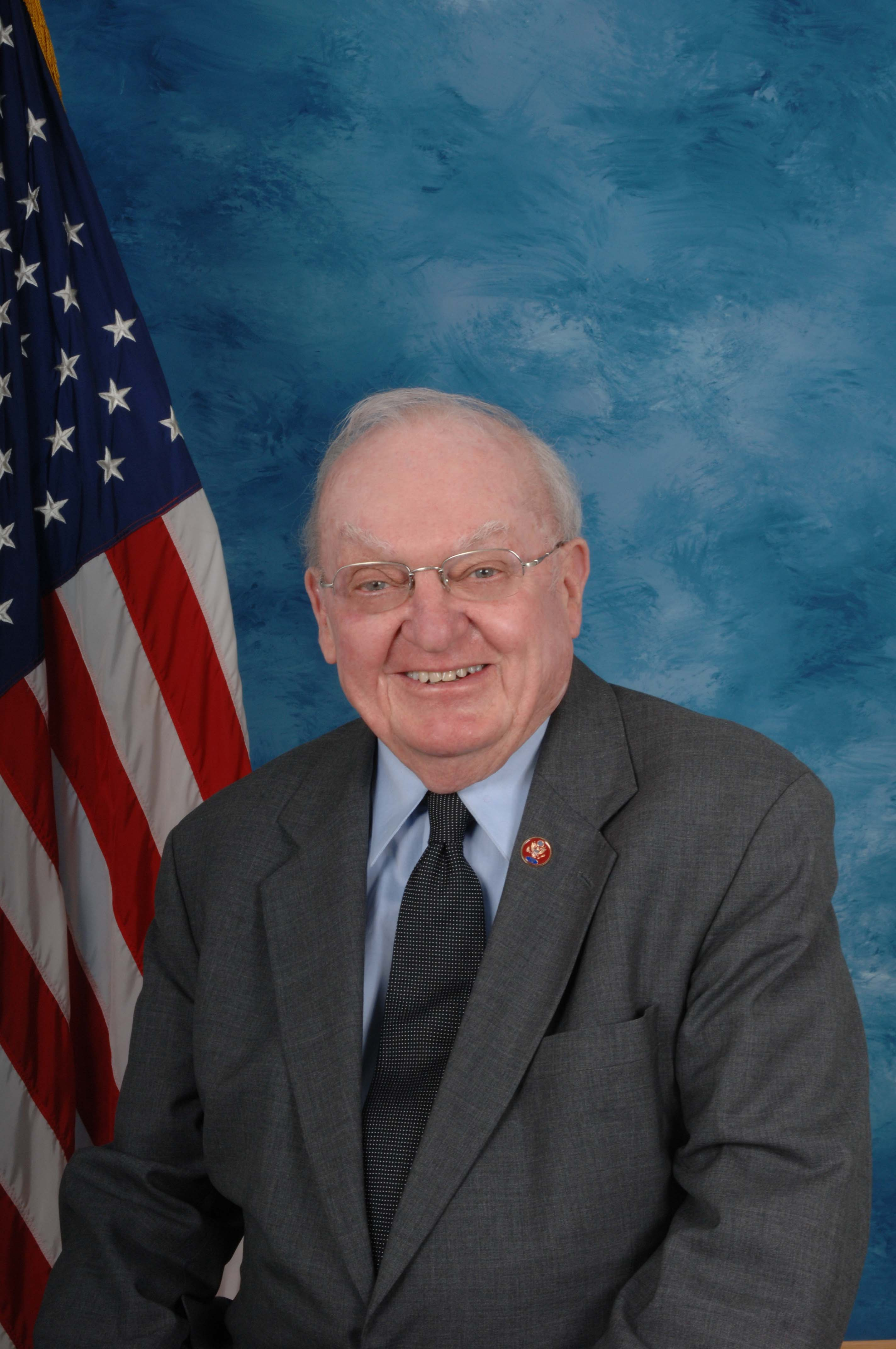 Howard Coble, member of the United States House of Representatives.